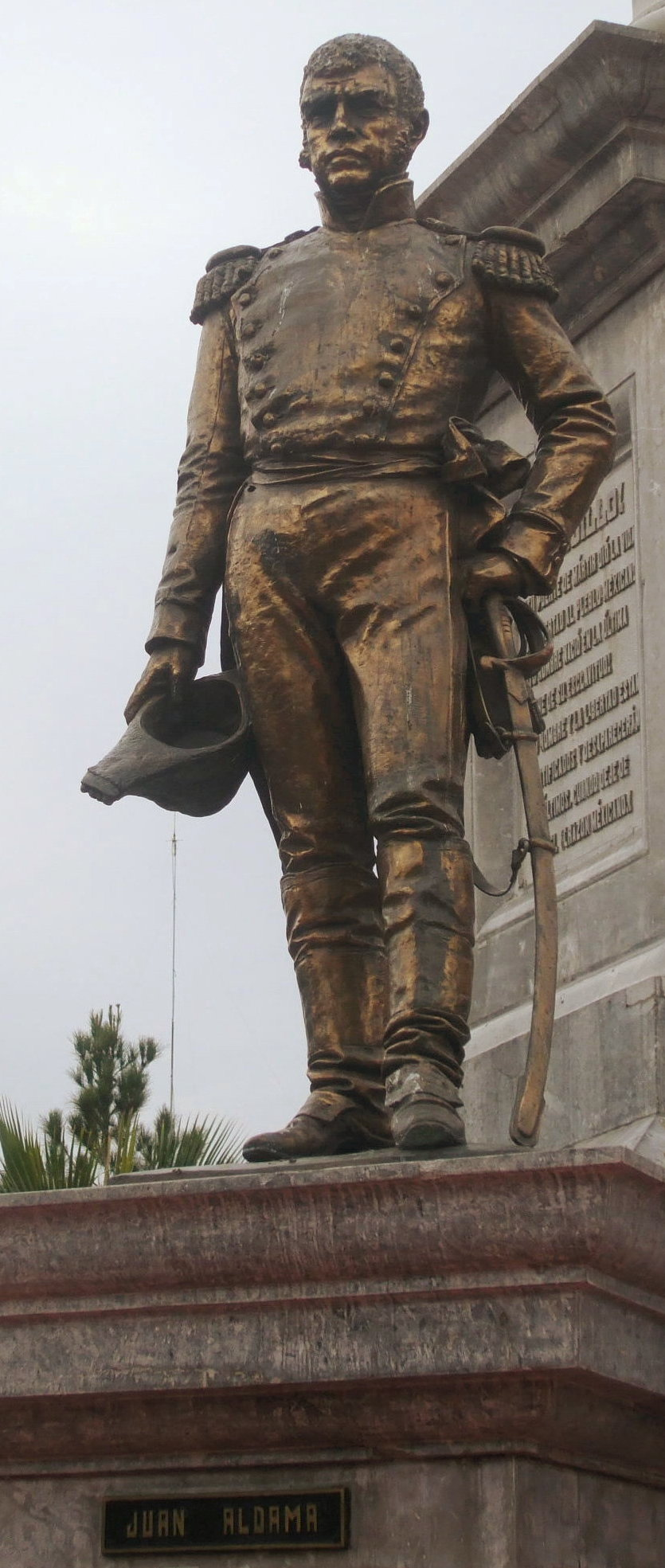 Aldama Statue, Hidalgo Monument, Chihuahua, Mexico